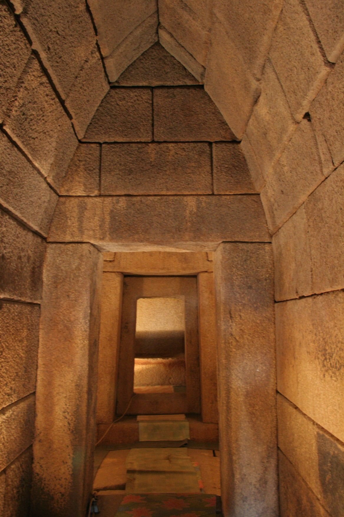 view from inside